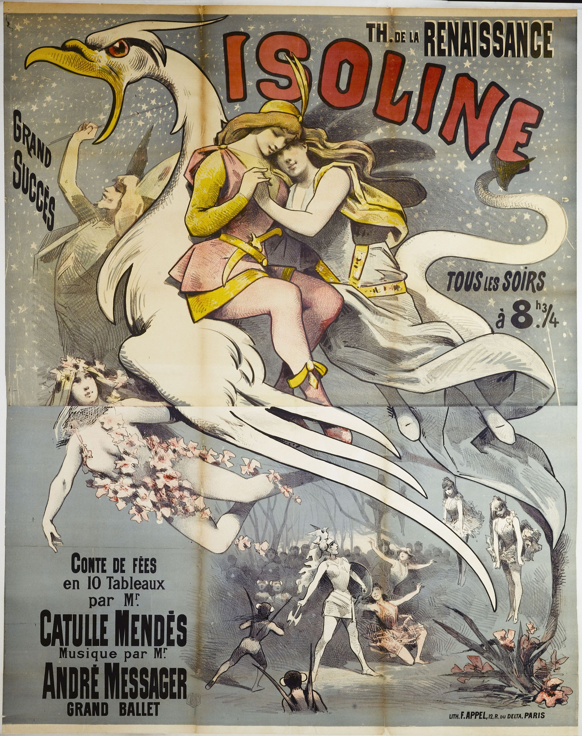 Imprimerie A. Appel. Théâtre de la Renaissance, Isoline, Conte de Fées. Théâtre de la Renaissance, Le Voyage au Caucase, Comédie. Affiche. Lithographie couleur. Paris, musée Carnavalet.